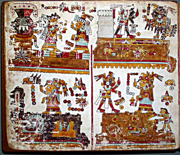 Page 1 of the Codex Vindobonensis Mexicanus I.